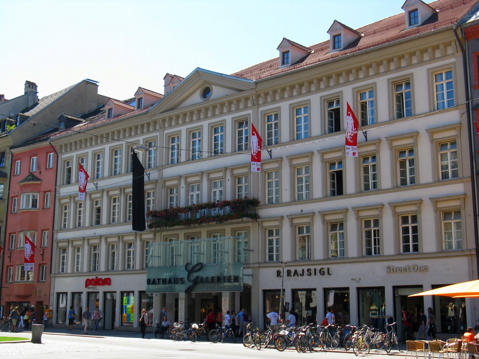 exterior view of the new town hall of Innsbruck, seen from Maria-Theresien-Straße